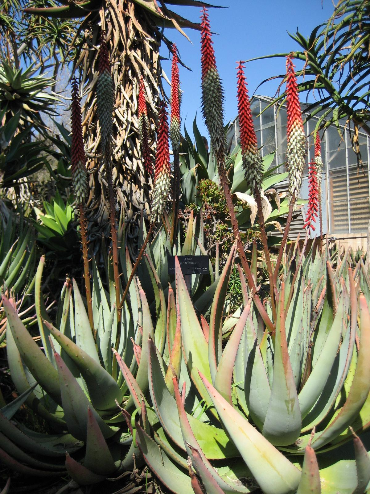 Photographed at Huntington Gardens (Los Angeles) in March